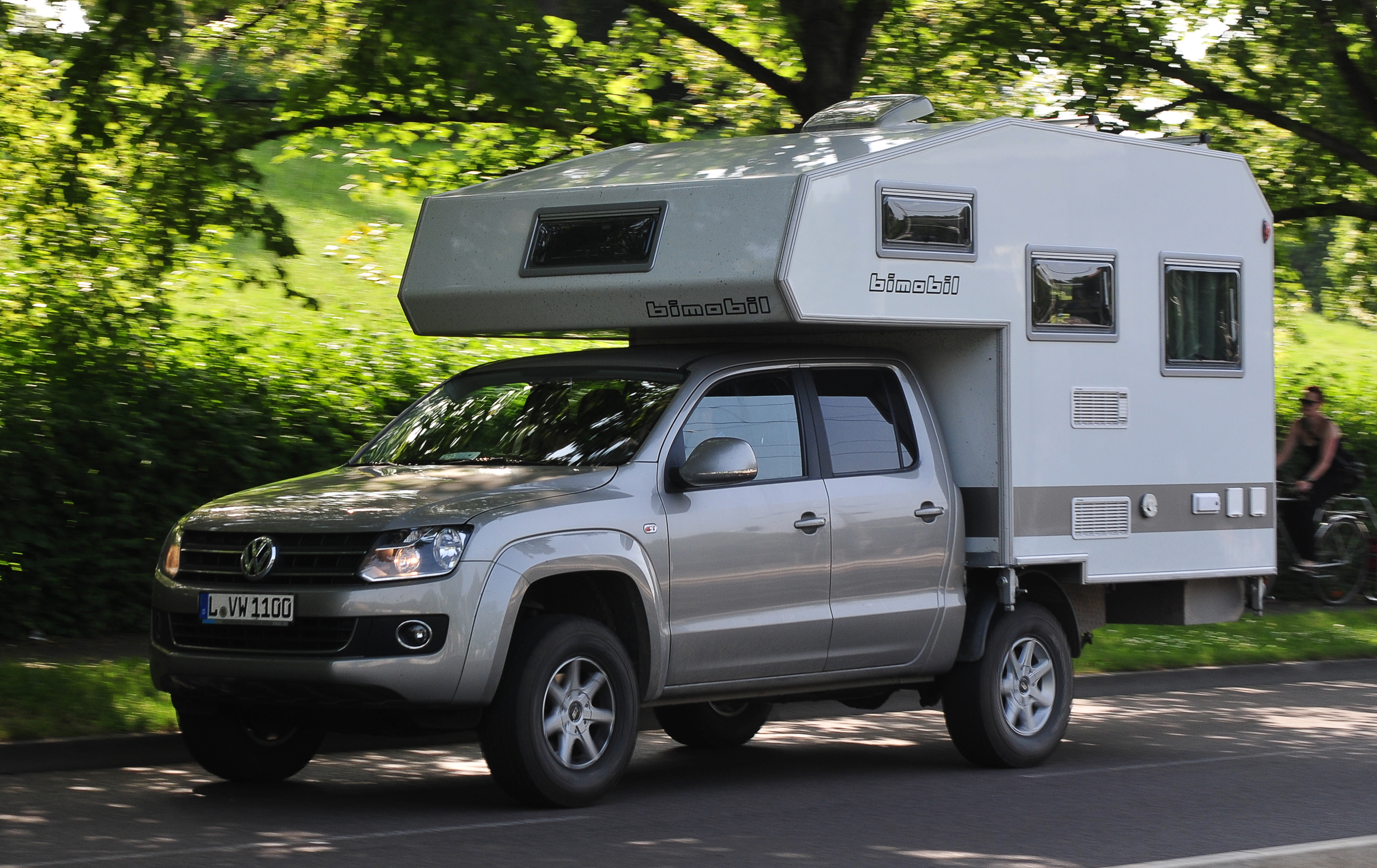 VW Amarok in Leipzig, Germany